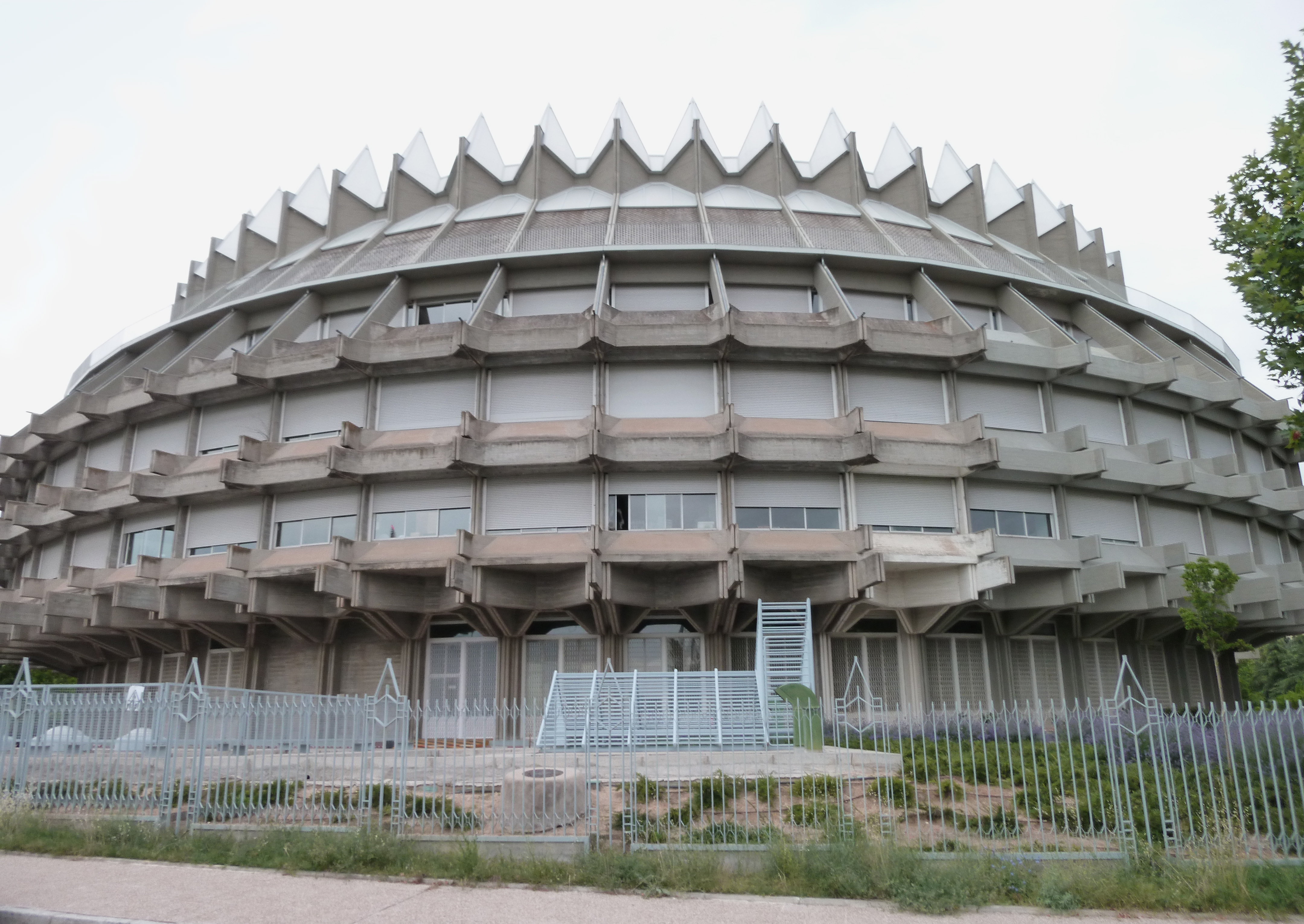 Façade of the headquarters of the Cultural Heritage Institute of Spain, at 4th Calle de El Greco (street) in Moncloa-Aravaca district in Madrid. Building was projected in 1967 by Fernando Higueras and Antonio Miró Valverde, and built from 1967 to 1970.